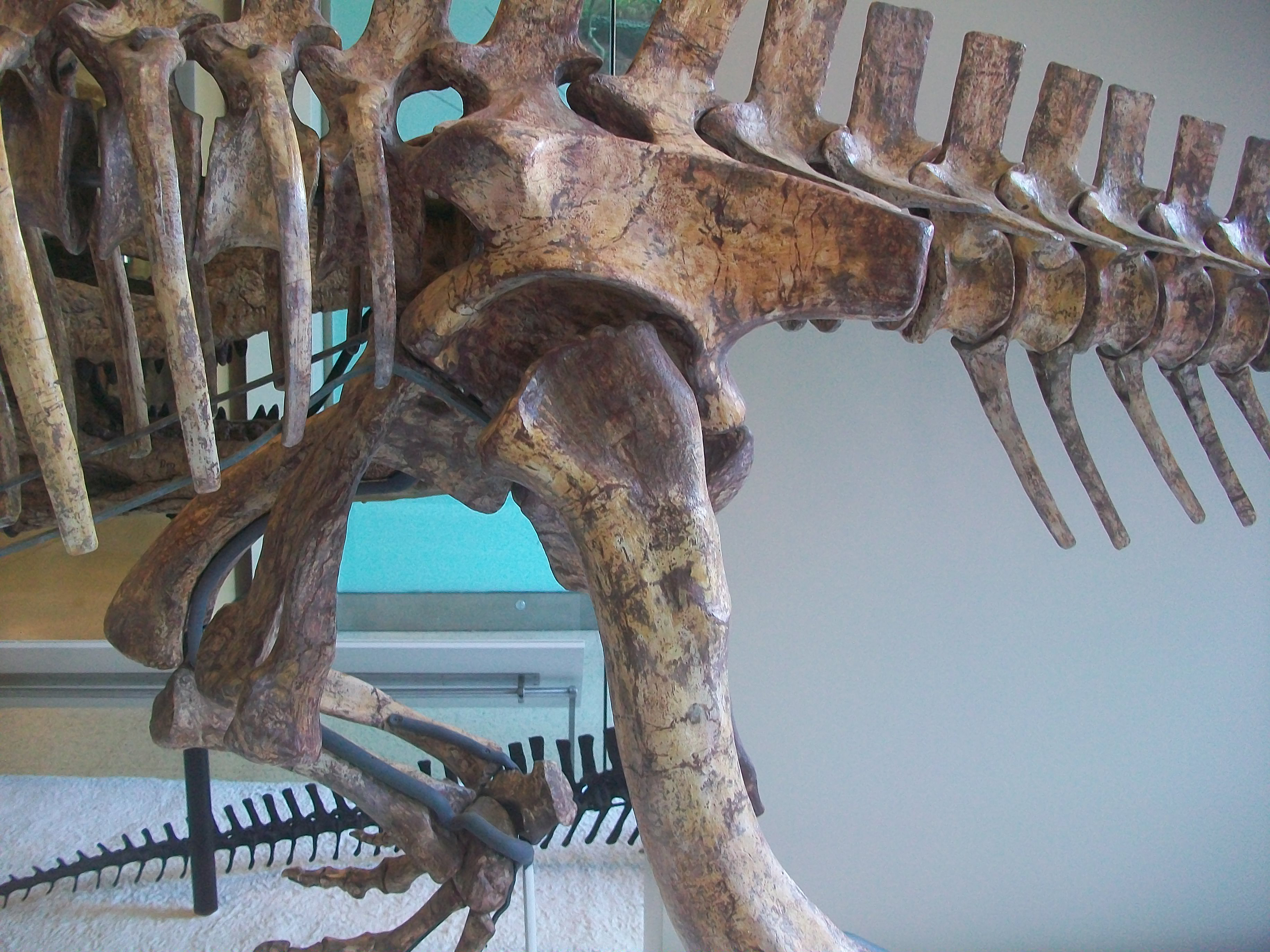 The pelvis of Prestosuchus chiniquensis, part of a cast of a skeleton (specimen AMNH 3856) in the American Museum of Natural History.